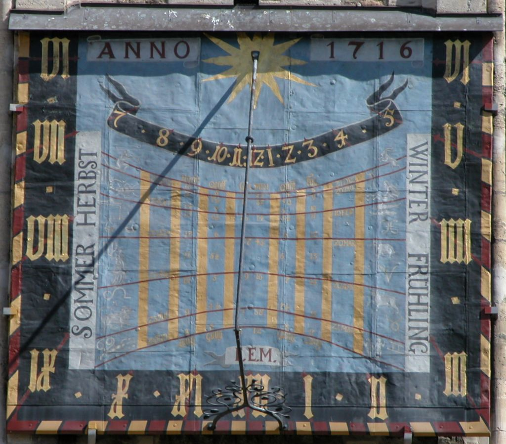 Brunswick Cathedral, Sundial from XVIII c.